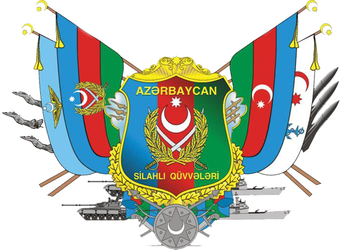 Ebmlem der Streitkräfte Aserbaidschans